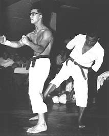 Master Shimabuku checking A. J. Advincula's Sanchin - 1963